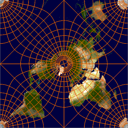 Peirce quincuncial projection of globe, with longitudinal & latitudinal lines in bright orange.